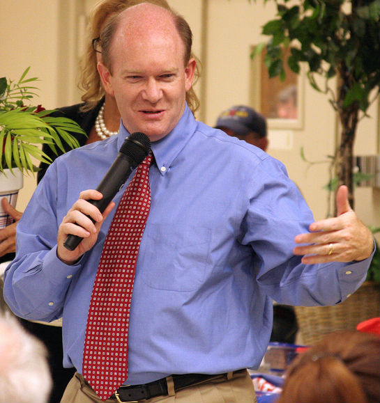 Chris Coons as the 2010 Democrat nominee for U.S. Senate in Delaware